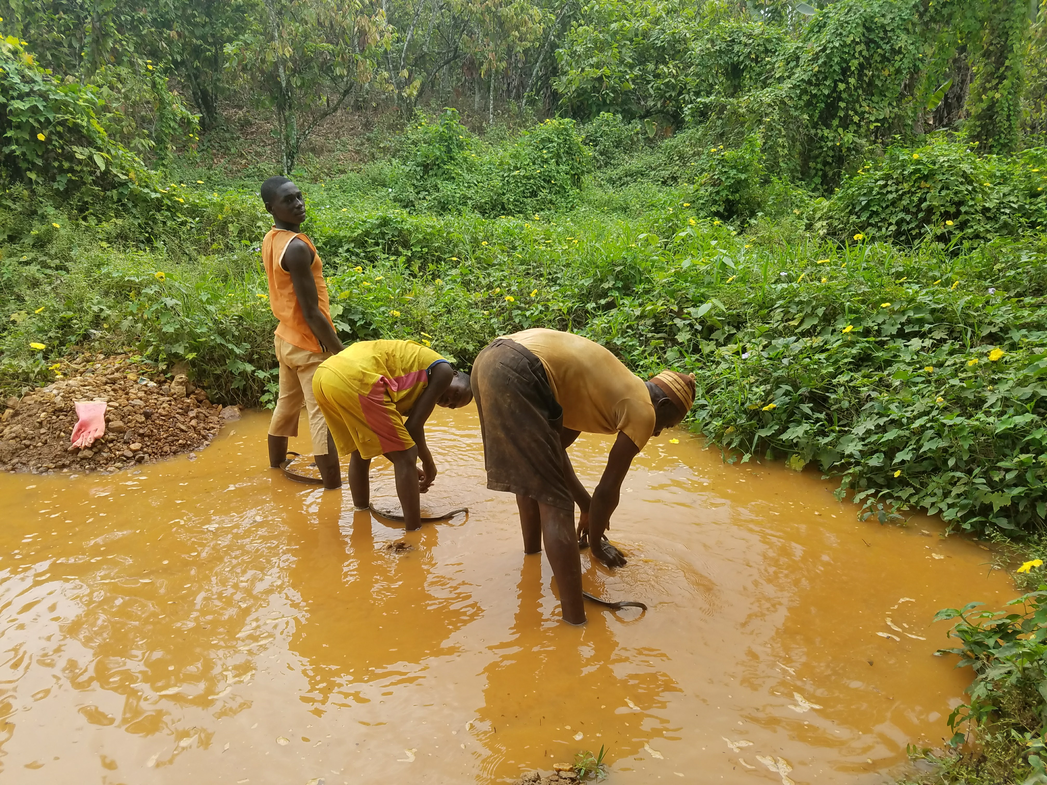 Illegal miners in Itagun, Nigeria separating mud, stones from the raw material, gold. This is an image of "African people at work" from Nigeria